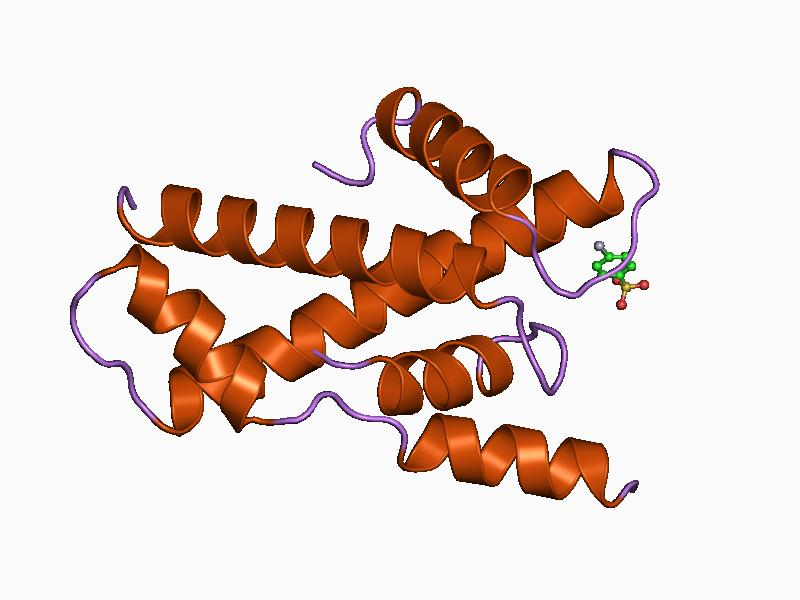 Cartoon representation of the molecular structure of protein registered with 1bh9 code.